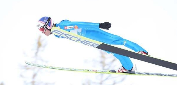 Jernej Damjan during team competition of FIS Ski-Flying World Championships 2012